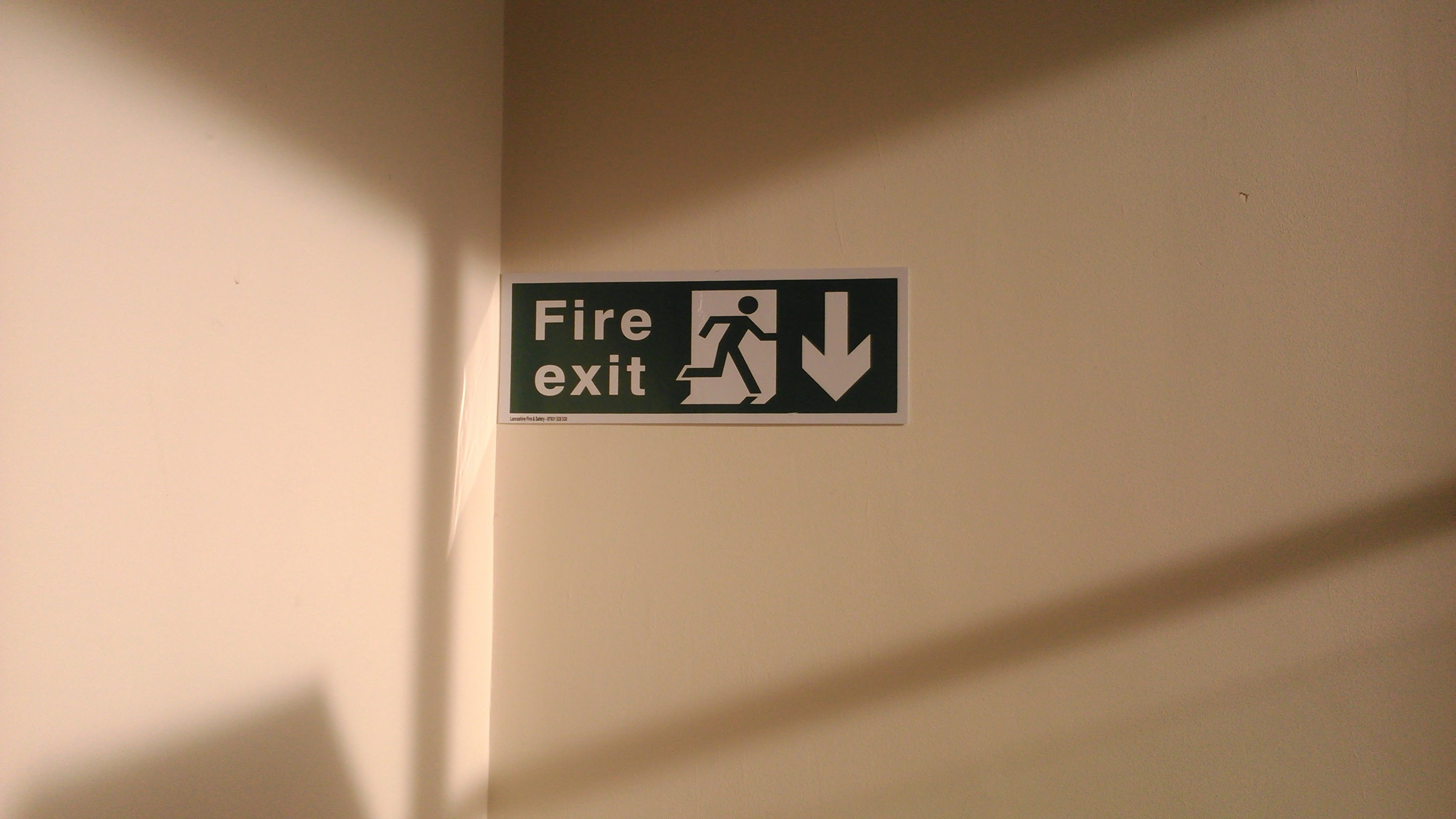 Fire escape